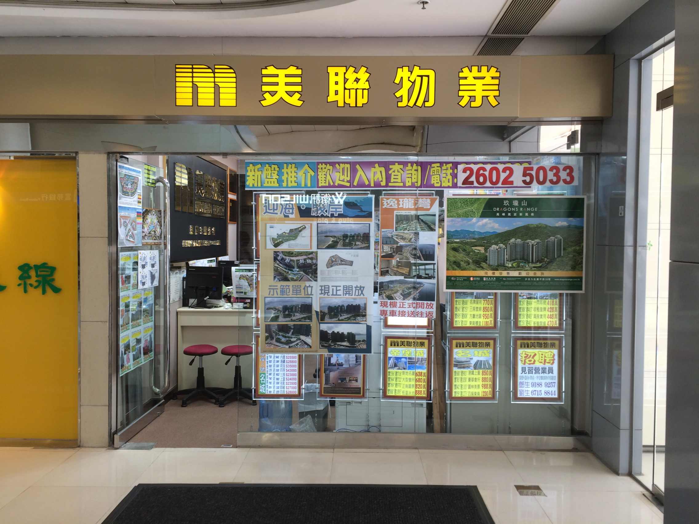 Midland Realty in Shatin Centre